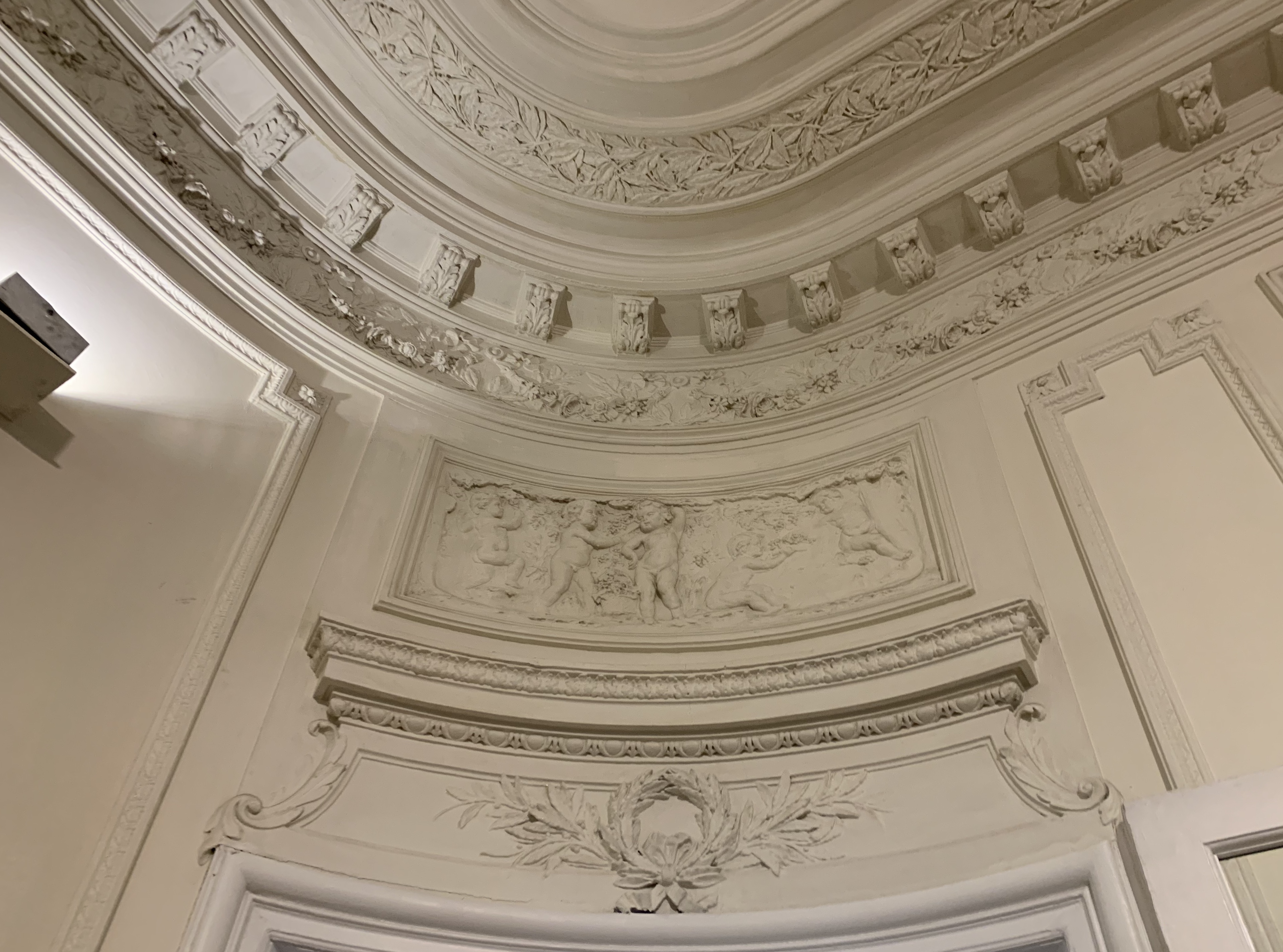 Stucco above a door from Cărturești Verona, in Bucharest (Romania)